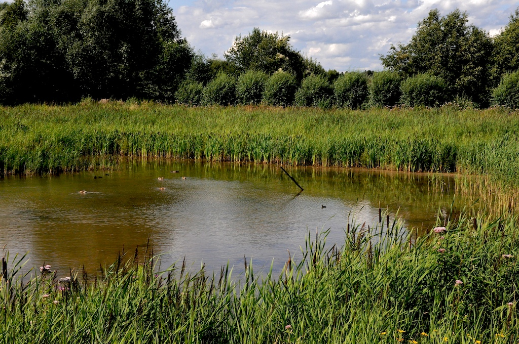 View over a pond from a bird hind at Lackford Lakes, Suffolk, England.